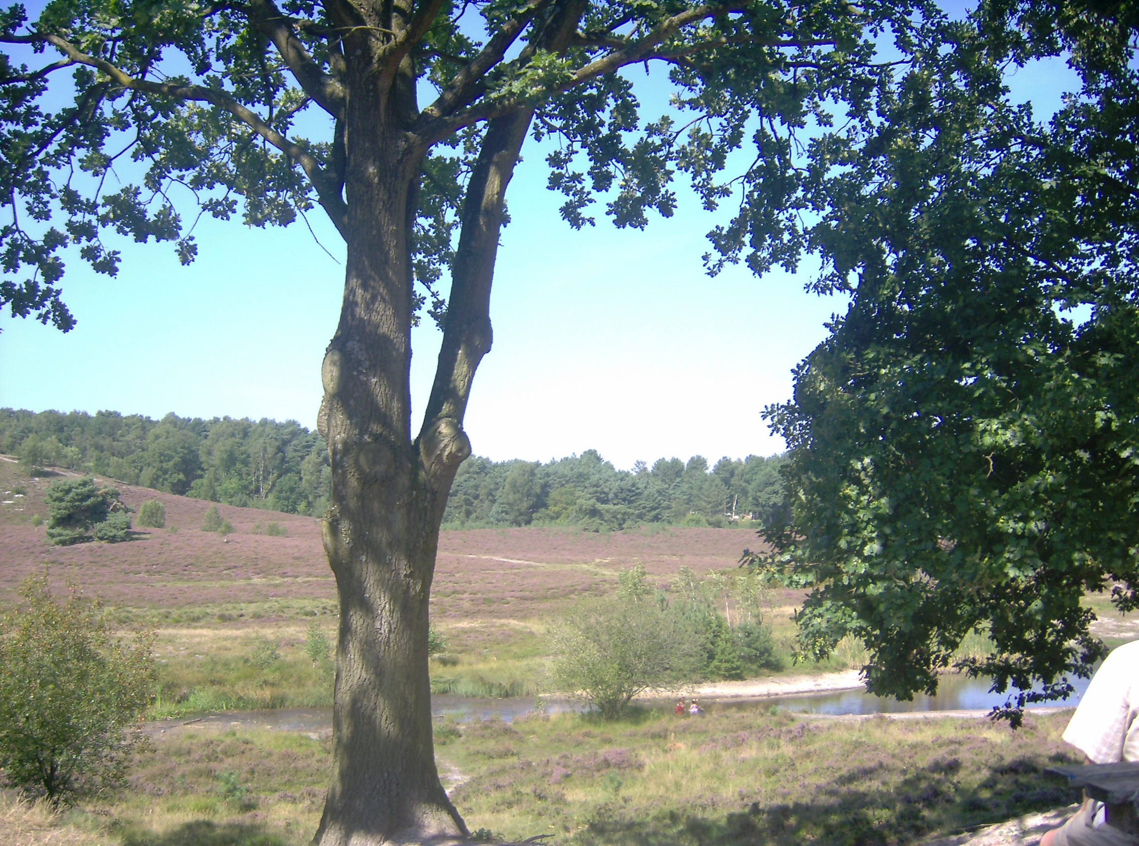 An overview of the Brunssummerheide